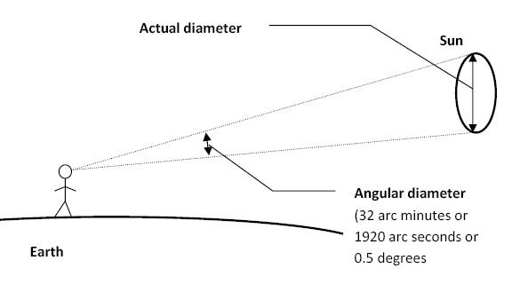 This image is for clearly explaining the concept of angular diameter which is used in astronomy.